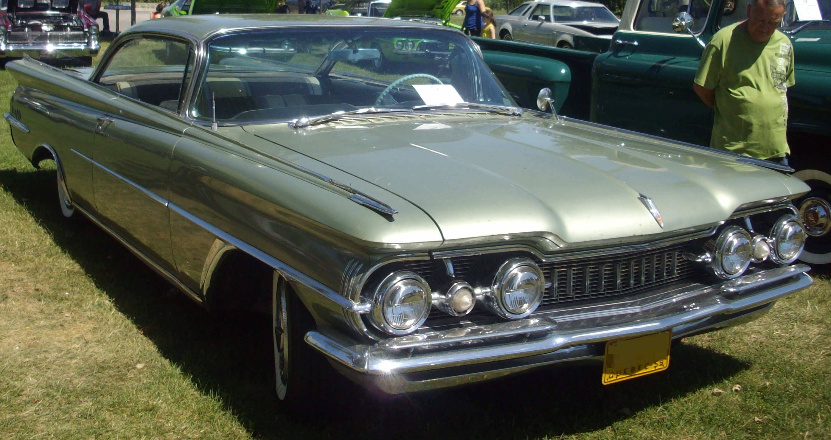 1959 Oldsmobile Ninety-Eight photographed in Laval, Quebec, Canada at Auto classique Laval 2012.